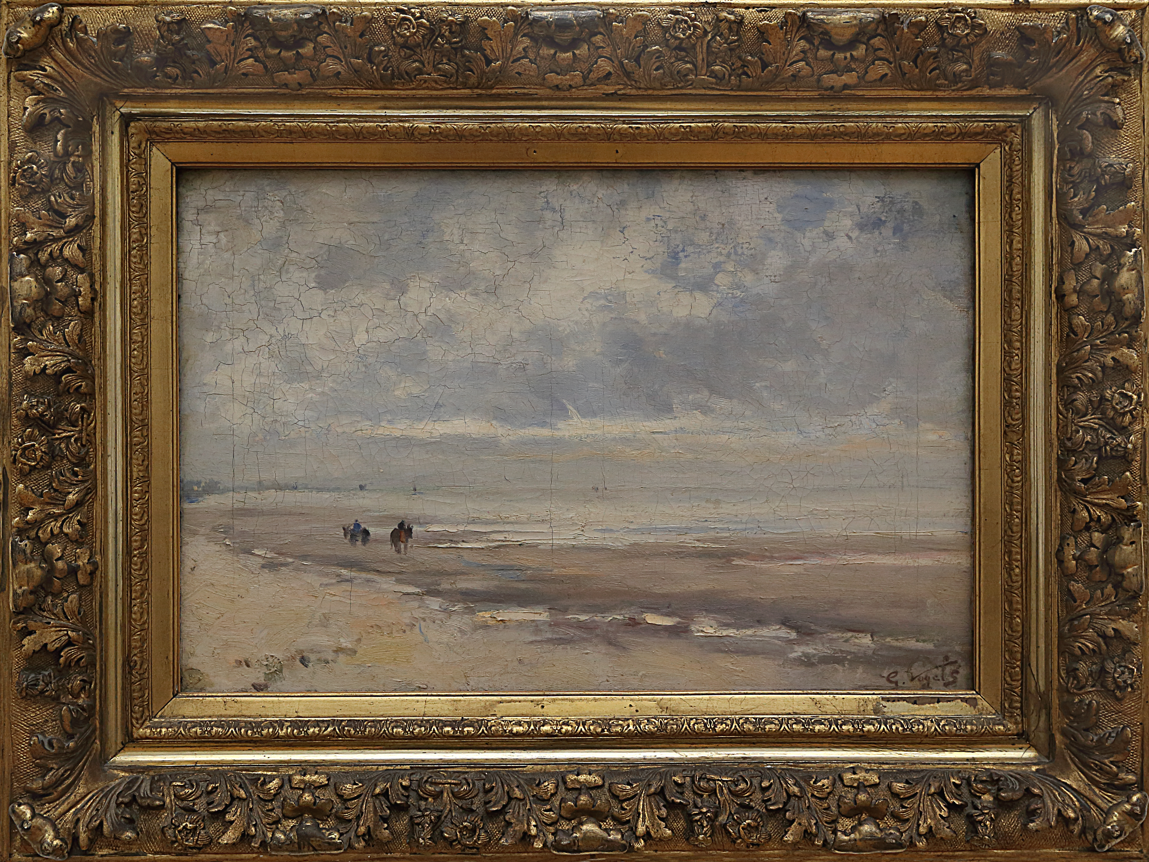 Guillaume Vogels, Brussel 1836 – Ixelles 1896 Ca 1878, Beach View. Oil on canvas. Museum of Fine Arts, (Museum voor schone kunsten) Ghent, Belgium.